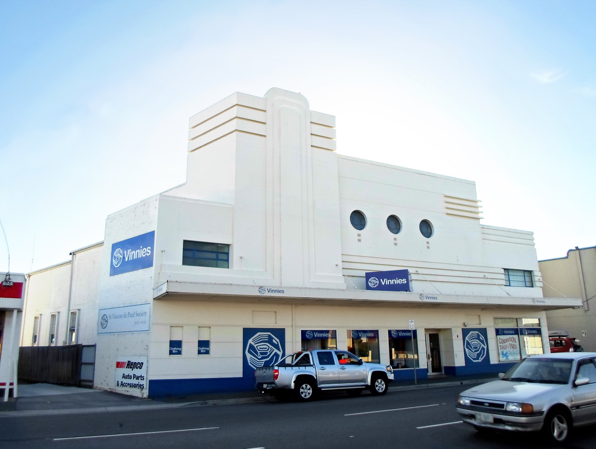 Perspective shot of the former Star Theatre on Invermay Road, Launceston. Shot has been digitally enhanced as well as the overhead power lines have been photo-shopped out of the image and number plates on vehicles have been blurred.